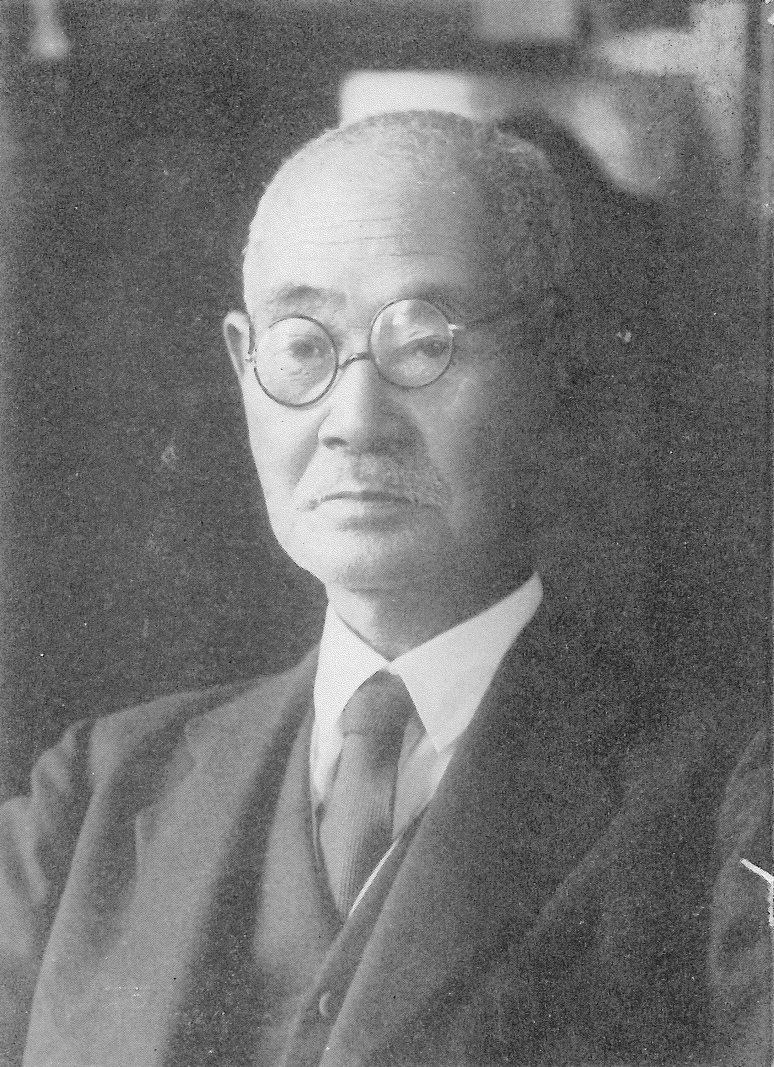 Portrait of Dr. med. Fujikawa Yū (1865-1940), pioneer of Japanese medical history